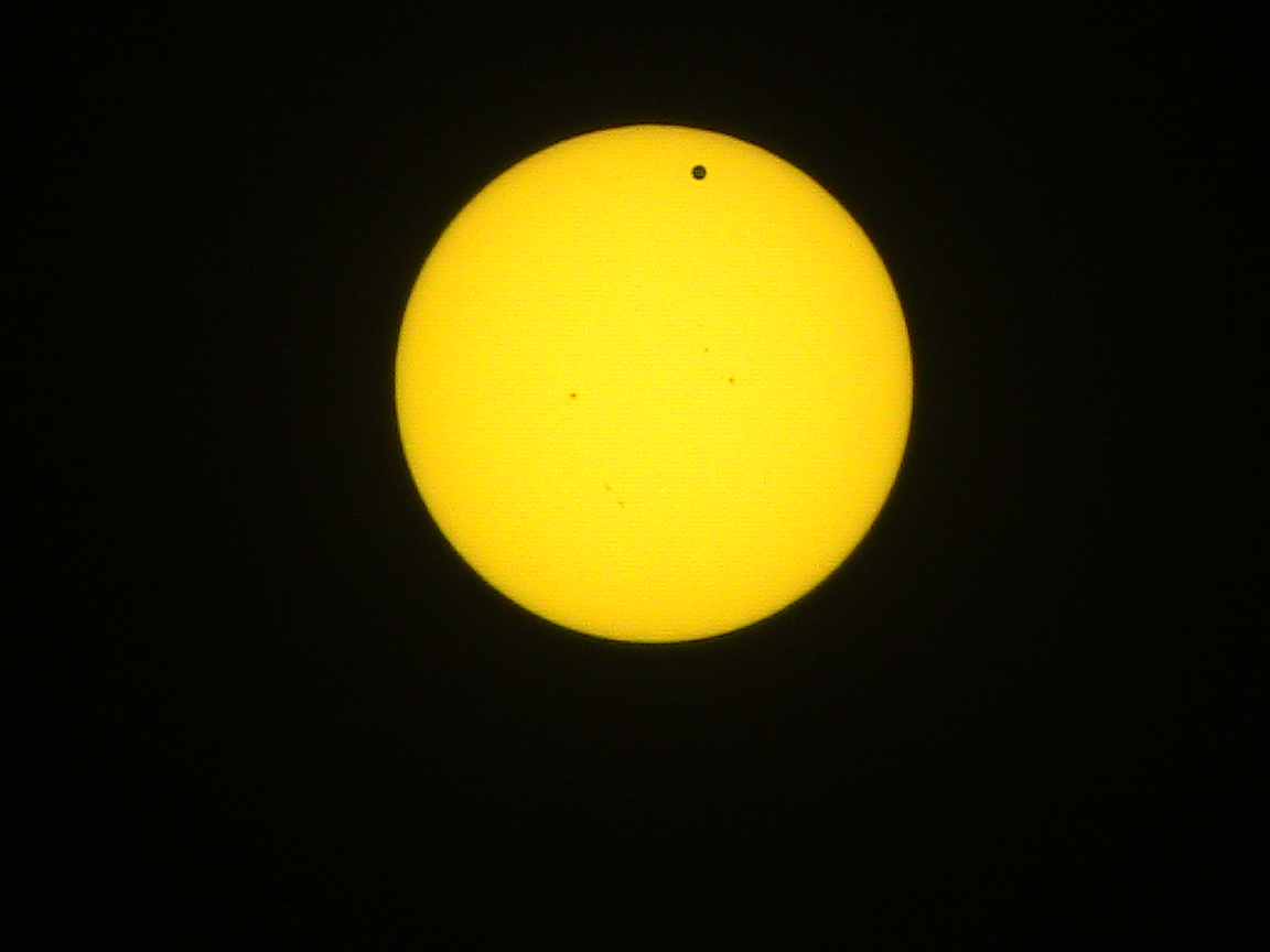 Venus passing in front of the sun.